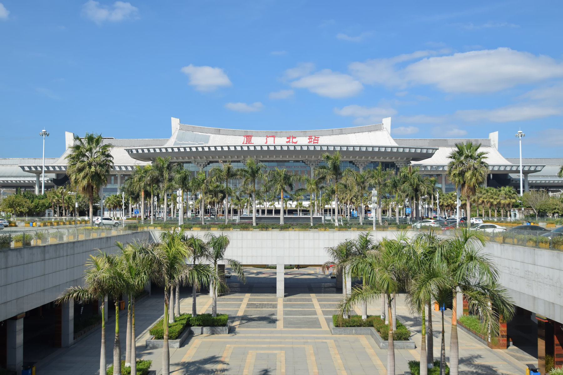 South Square of Xiamen Bei (North) Railway Station